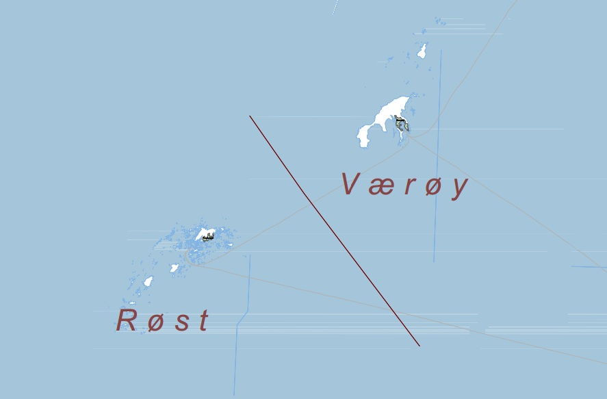 Urban areas of the Norwegian municipalities of Røst and Værøy in Nordland county.